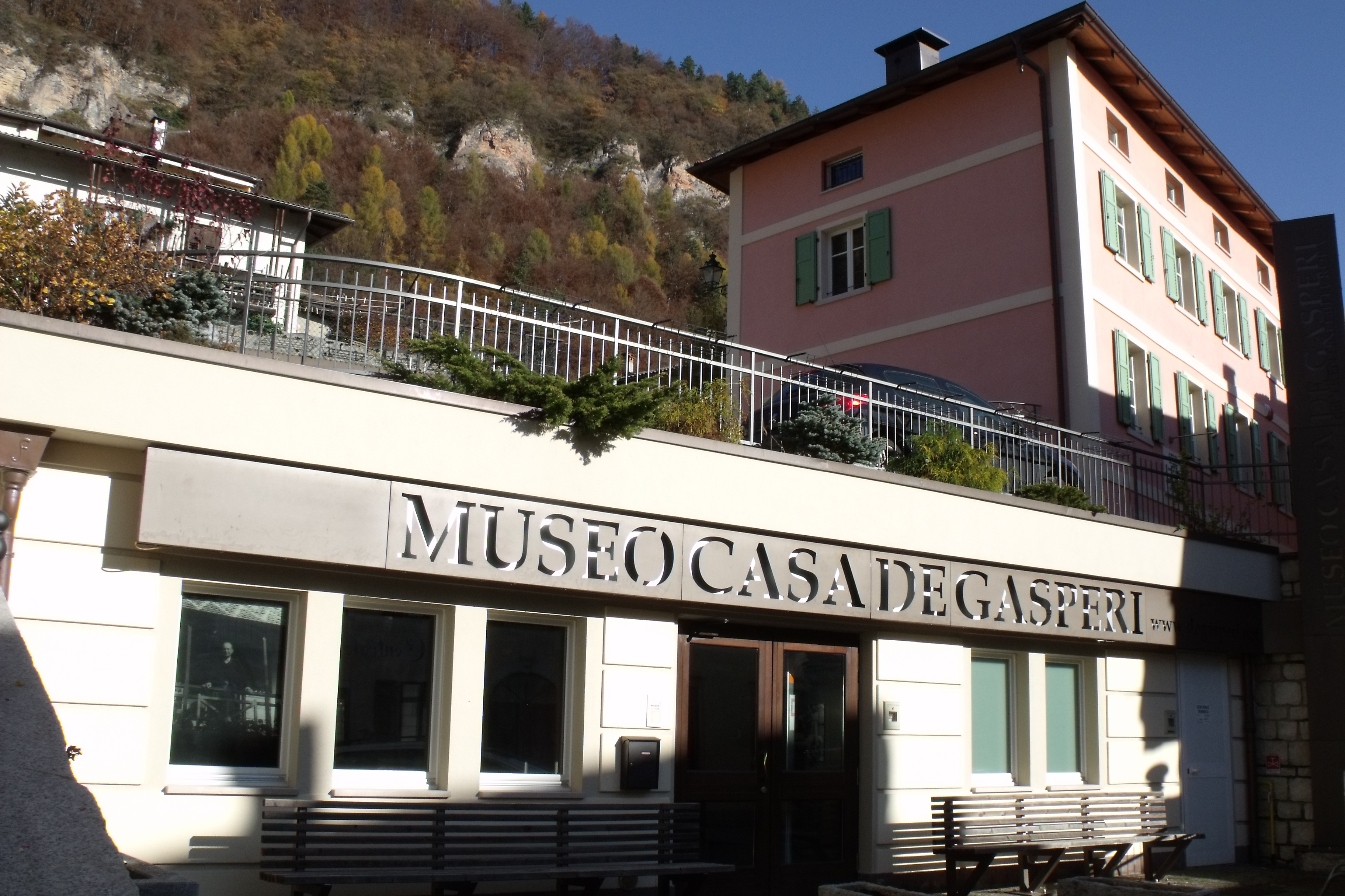 Exterior of the Museum Alcide de Gasperi in Pieve Tesino, Province of Trento (Trentino), Italy